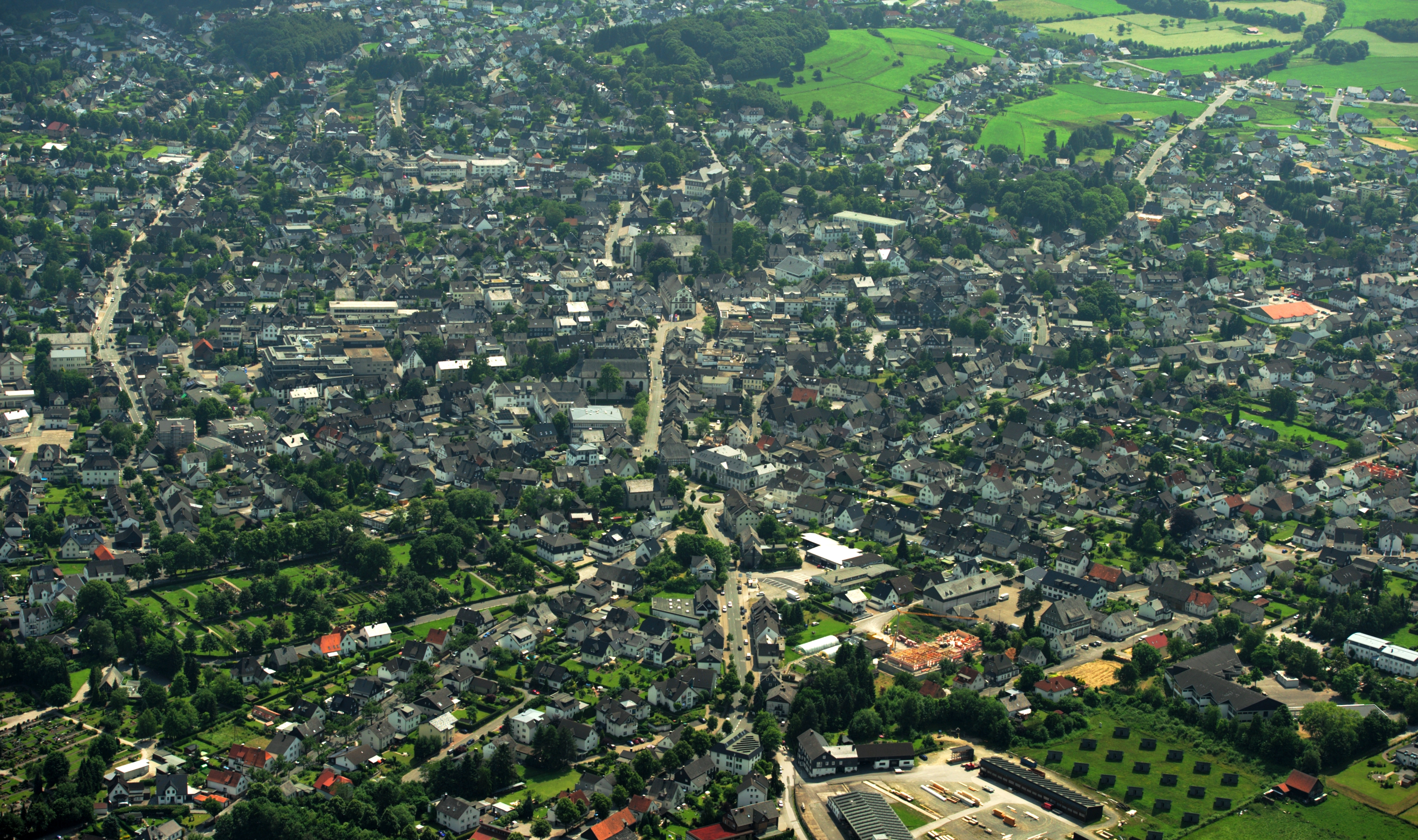 Brilon, etwa in der Mitte das historische Rathaus und die Propsteikirche The making of this document was supported by the Community-Budget of Wikimedia Germany.